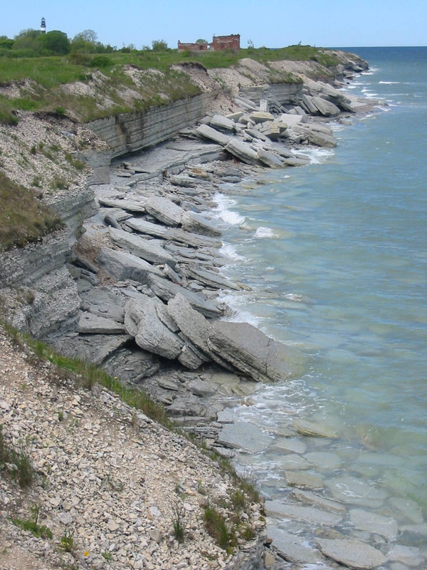 Northeastern coast of Osmussaar